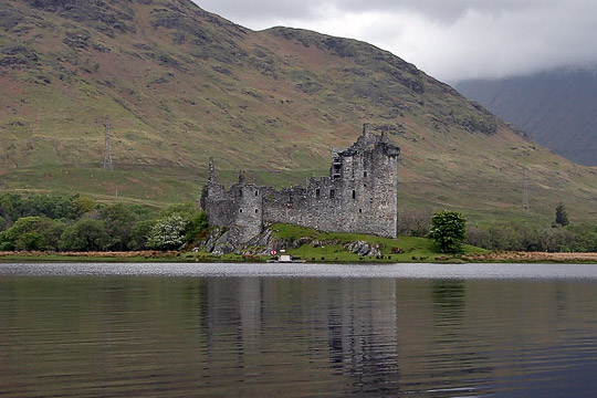 Kilchurn Castle in Scotland, United Kingdom.